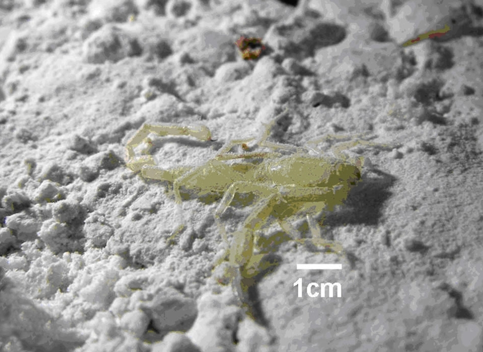 Invertebrates from Ayyalon Cave, Israel. Akrav israchanani (Photo I. Naaman)